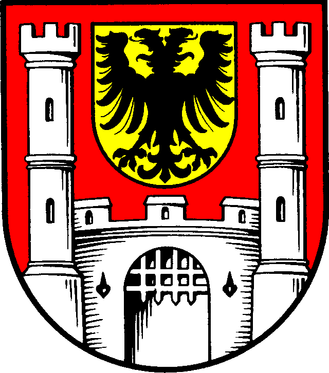 Coat of arms of the German city of Weißenburg in Bayern.